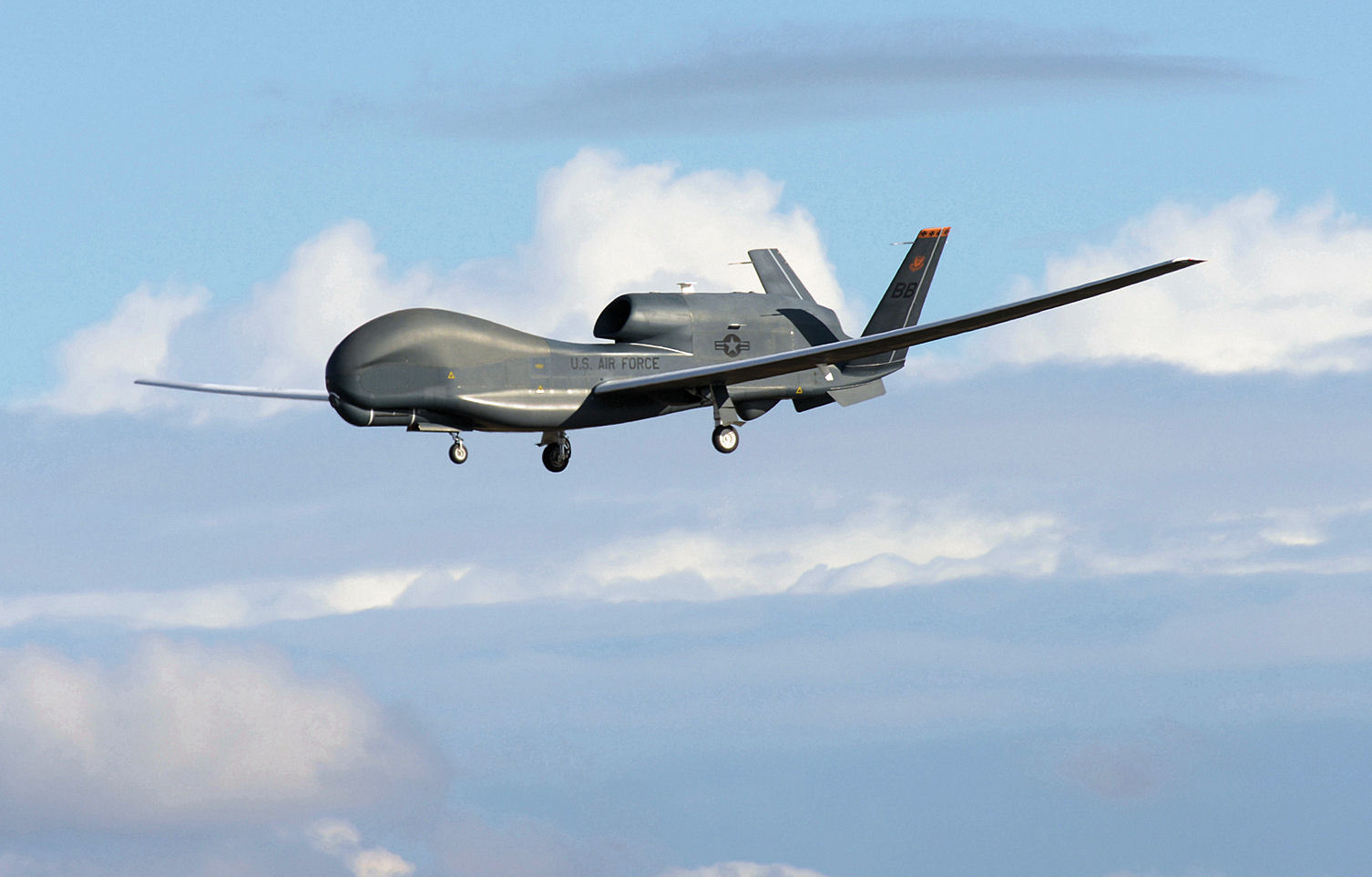 A U.S. Air Force RQ-4 Global Hawk unmanned aerial vehicle prepares to land at Beale Air Force Base, Calif. after flying a routine training mission, Jan. 25, 2013. (U.S. Air Force Photo by Mr. John Schwab/ Released)